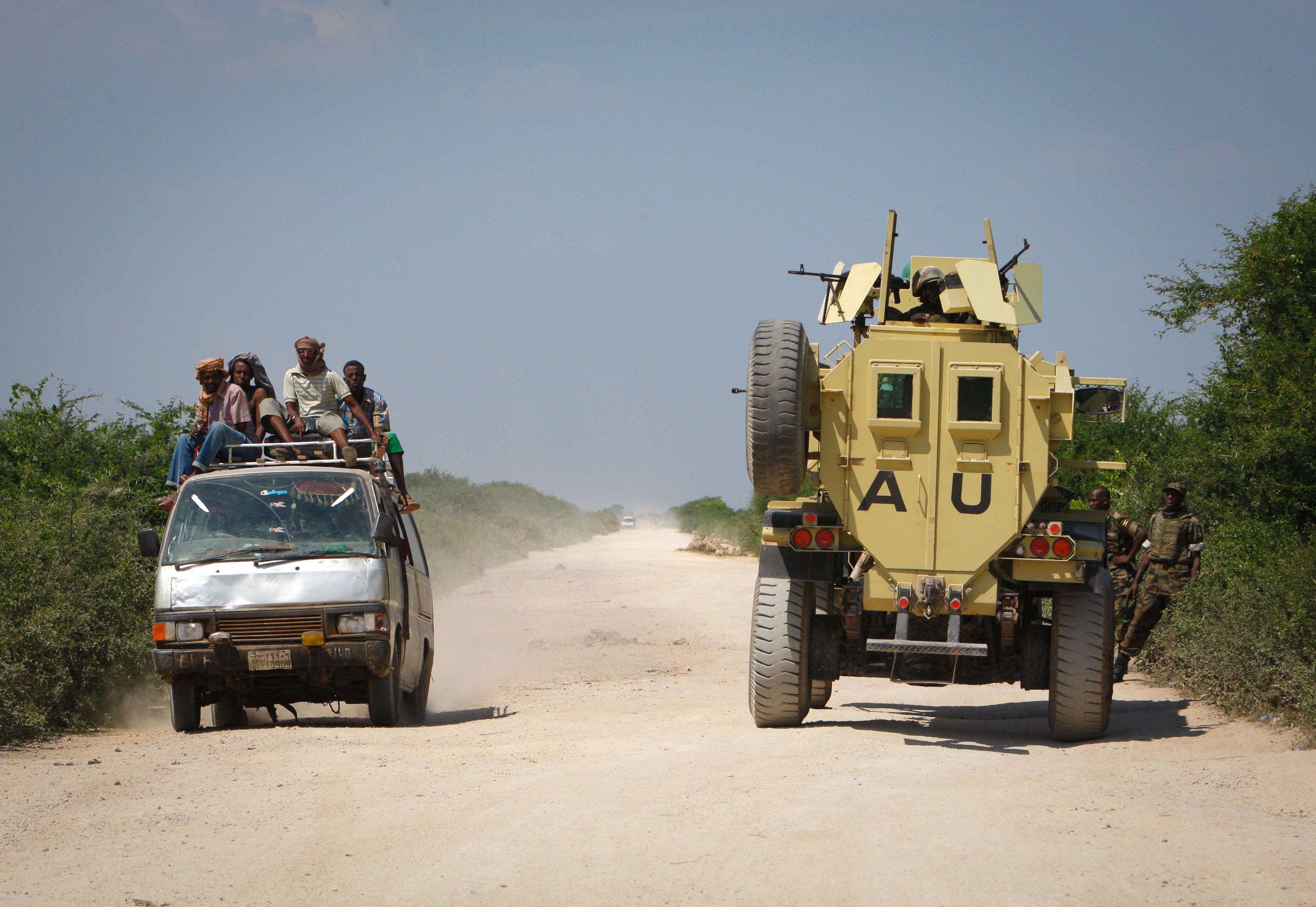 A commuter taxi drives past an African Union Mission in Somalia (AMISOM) armoured vehicle along the road mid-distance between the towns of Balcad and Jawahar in Middle Shabelle region 10 December 2010, north of the Somali capital Mogadishu. Somali National Army (SNA) forces supported by AMISOM captured the town of Jawahar, 90km north of Mogadishu, on 9 December from the Al-Qaeda-affiliated extremist group Al Shabaab encountering little resistance as they entered the strategic and economically important capital of Middle Shabelle region. Jawahar was one of the last remaining urban areas under the Shabaab's control who have lost large swathes of territory and major towns across Somalia over the last 18 months following sustained security operations against them by combined SNA and AMISOM forces. AU-UN IST PHOTO / STUART PRICE.